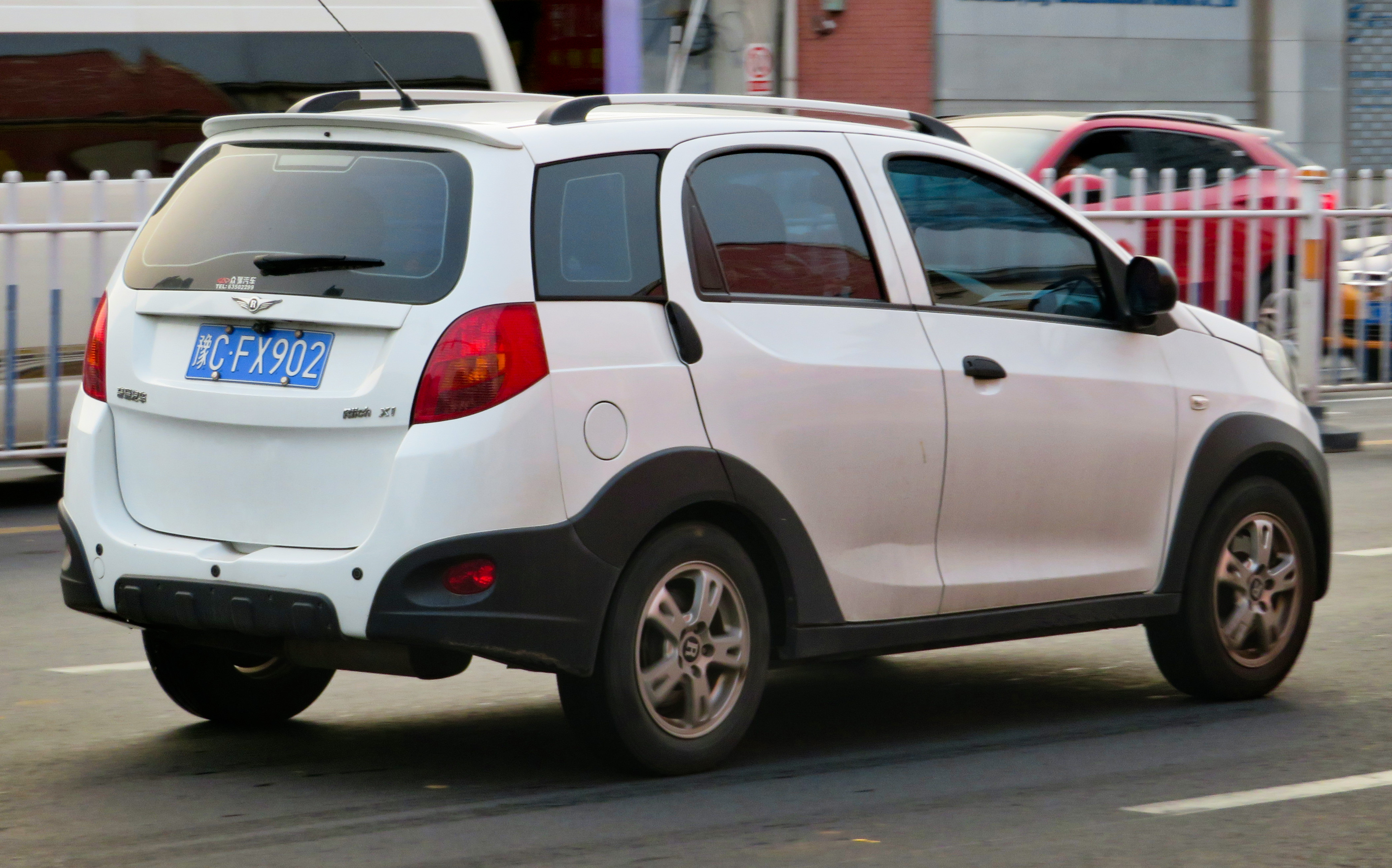 A 2010 Chery Riich X1 photographed in Xigong District, Luoyang, Henan province, China